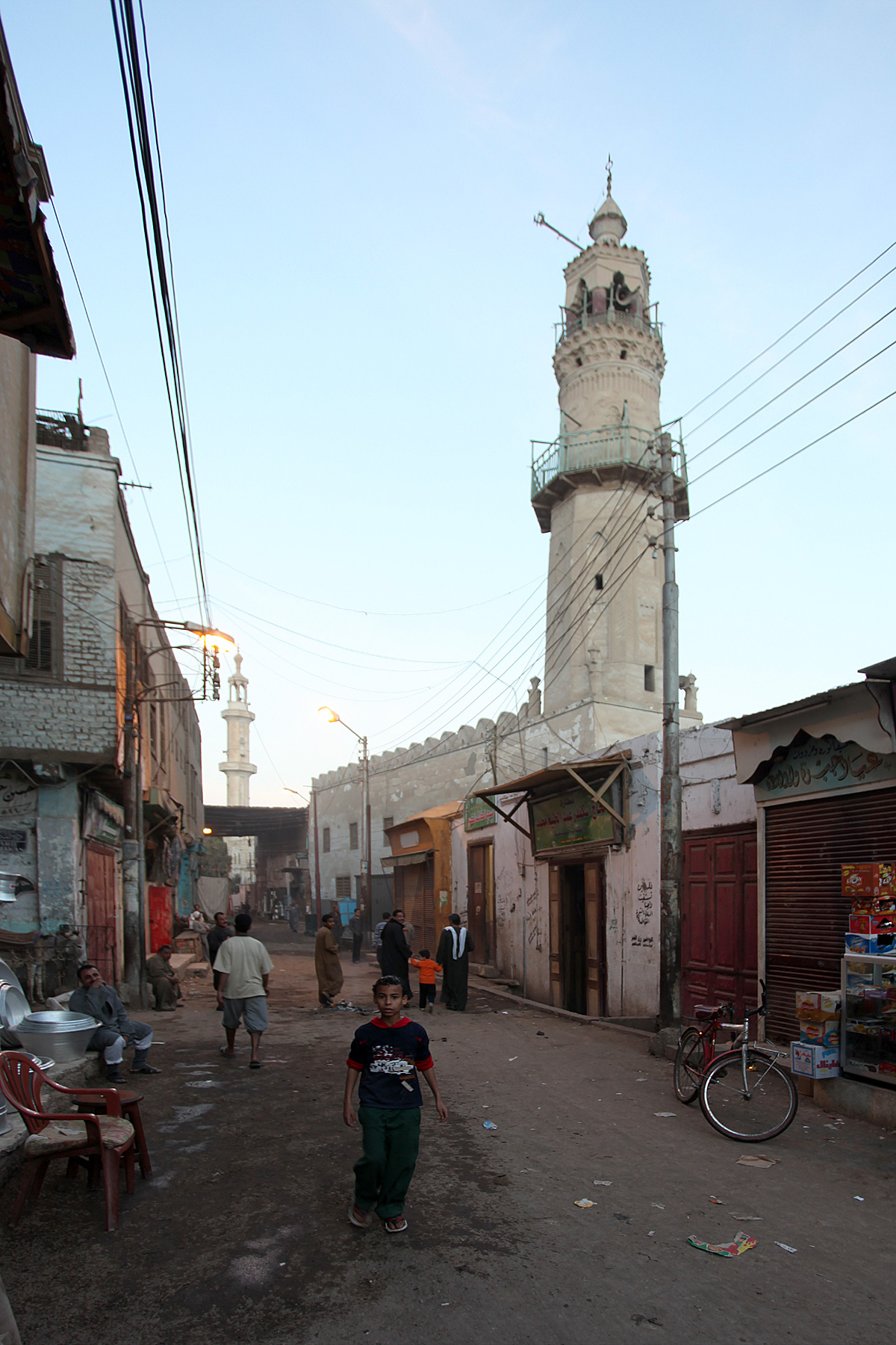 Street view of the el-Kashef Mosque in Manfalut